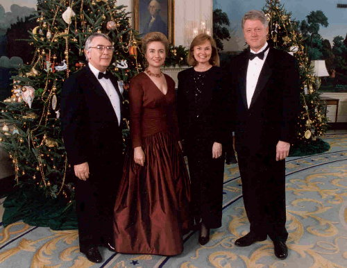 White House Christmas Ball 1994